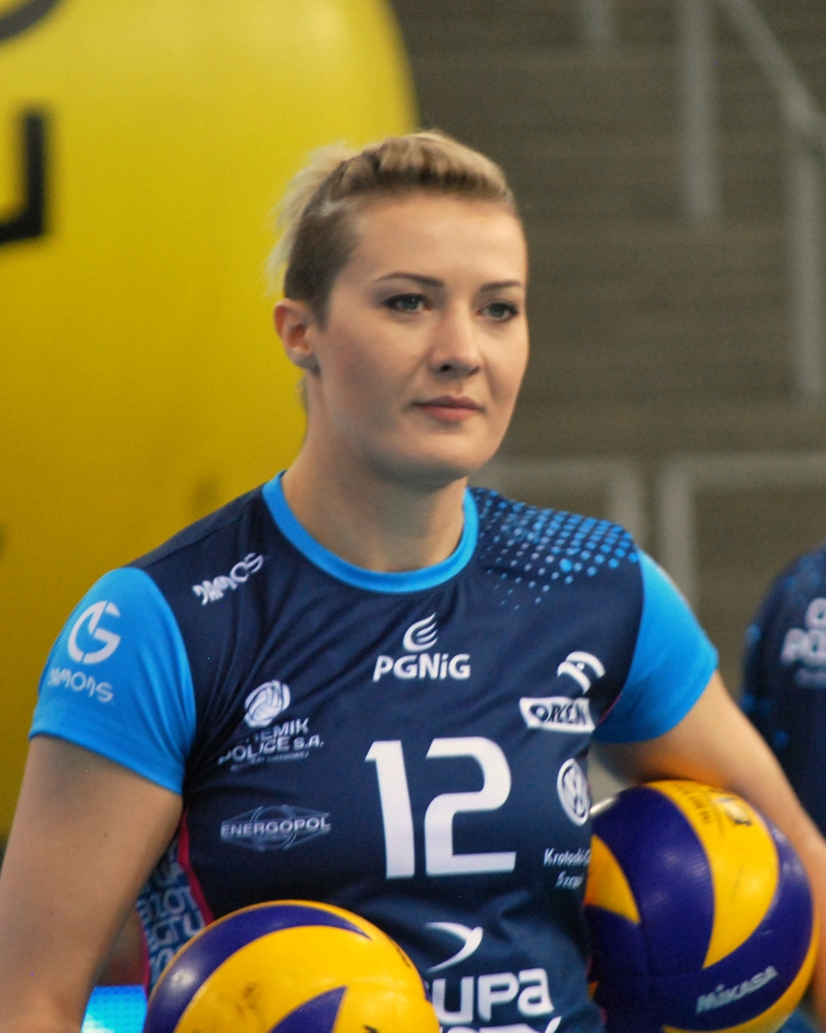 Izabela Kowalińska, volleyball player from Poland